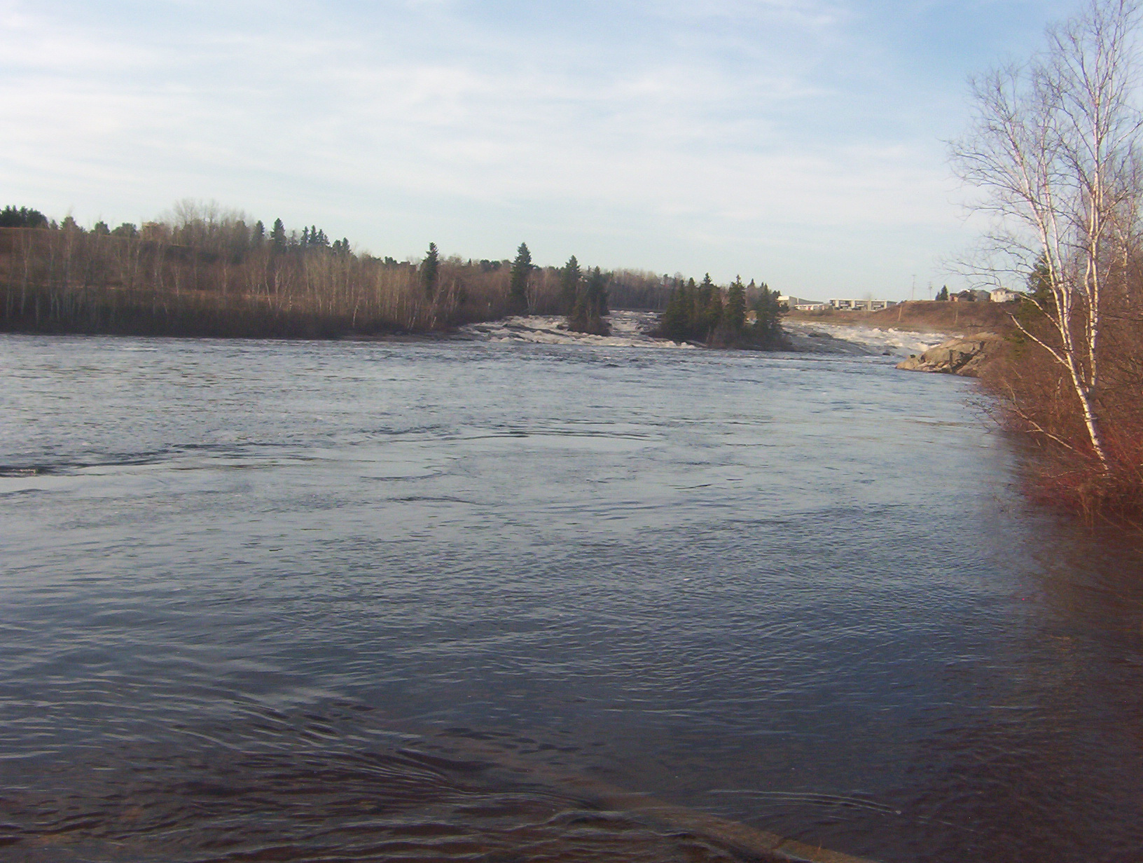 River near the Île Talbot, located at Dolbeau-Mistassini, Québec.